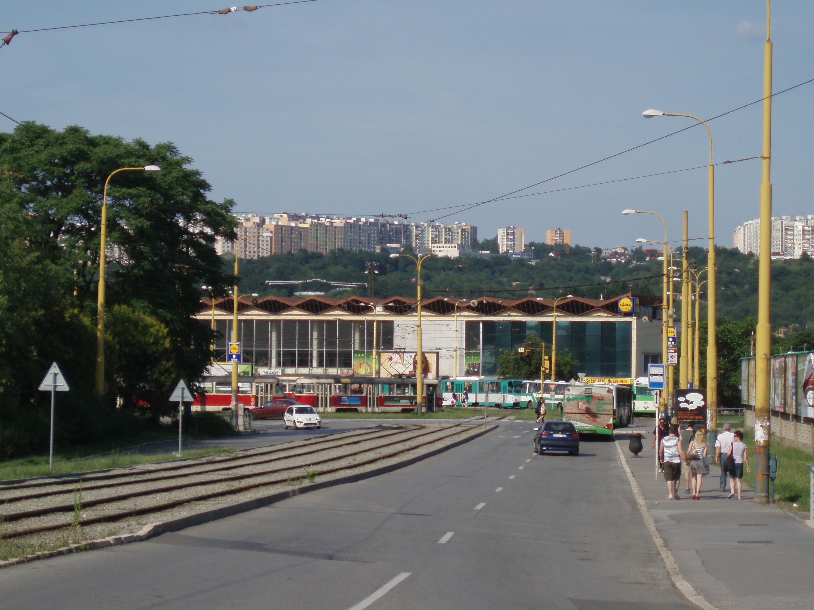 Rail Station Košice